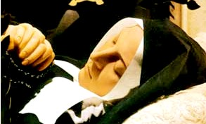 a picture of saint Bernadette's face